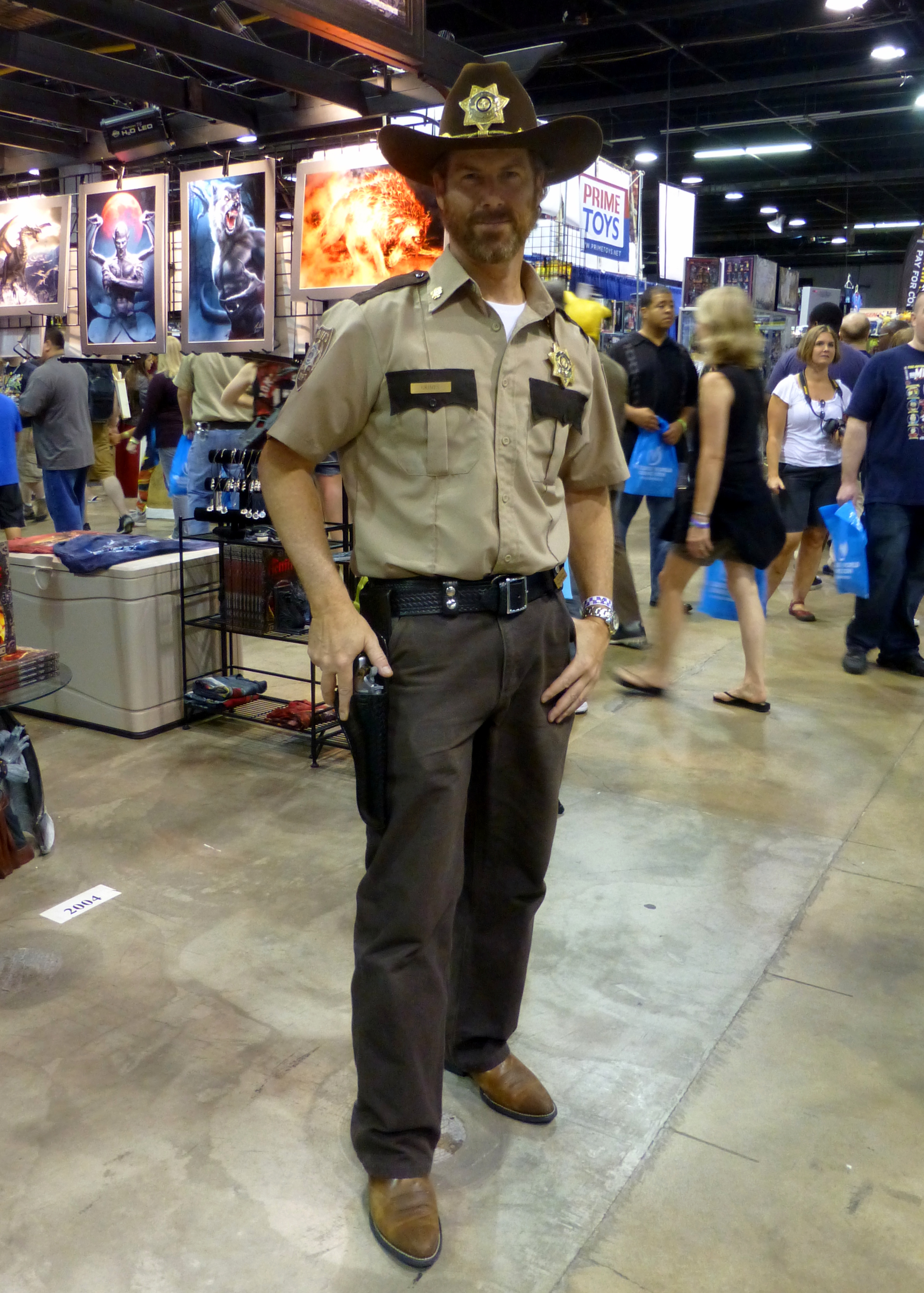 Rick Grimes Cosplay at the 2015 Wizard World Chicago.